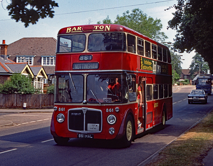 Barton's unique Dennis Loline II in Southampton, 1984. Fleet number 861, registration number 861 HAL. This bus was designed to pass under an ultra low railway bridge at Sawley Junction, now Long Eaton, station. Scanned from a Kodachrome 35mm slide.